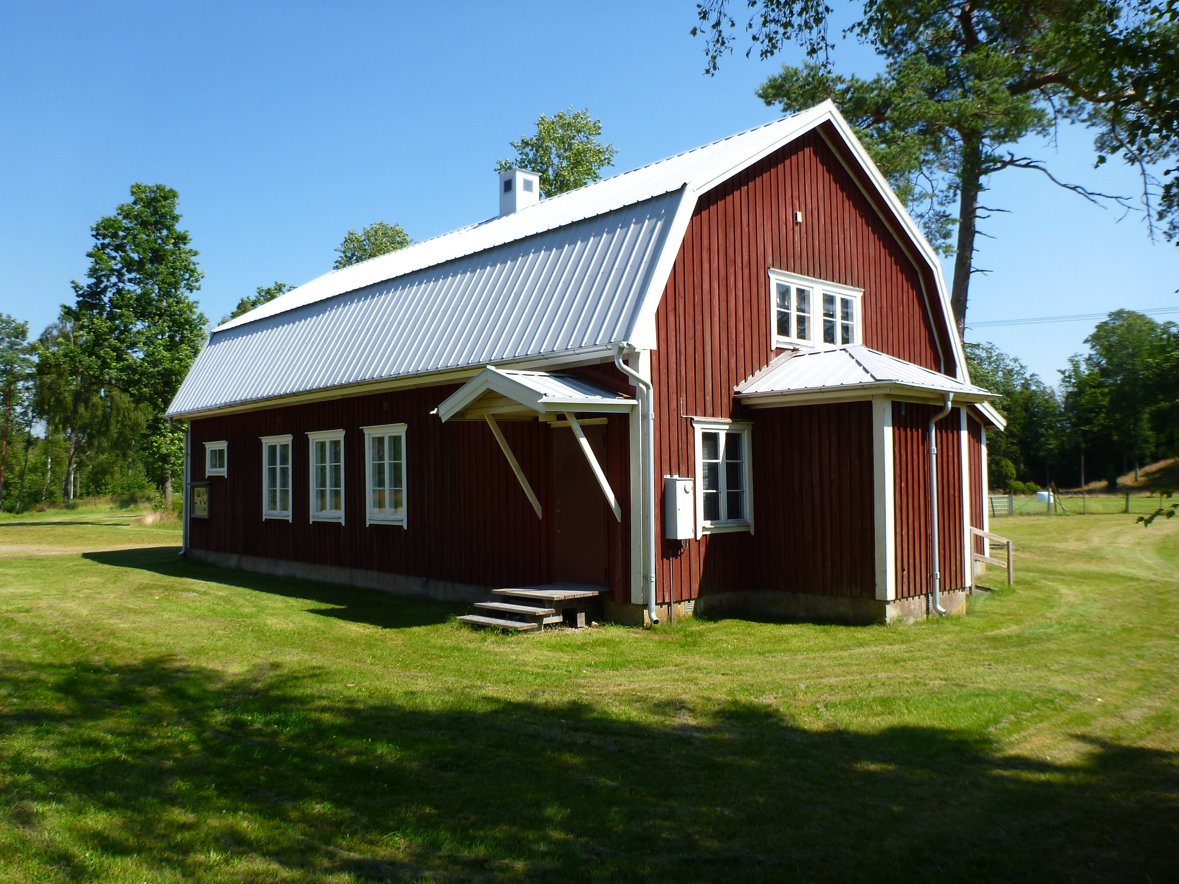 Chalanderska Museum in Jälluntoft, a cabinet maker's from the 19.th century